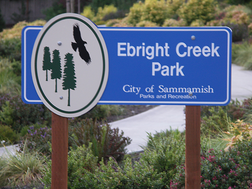 Ebright Creek Park Entrance Sign